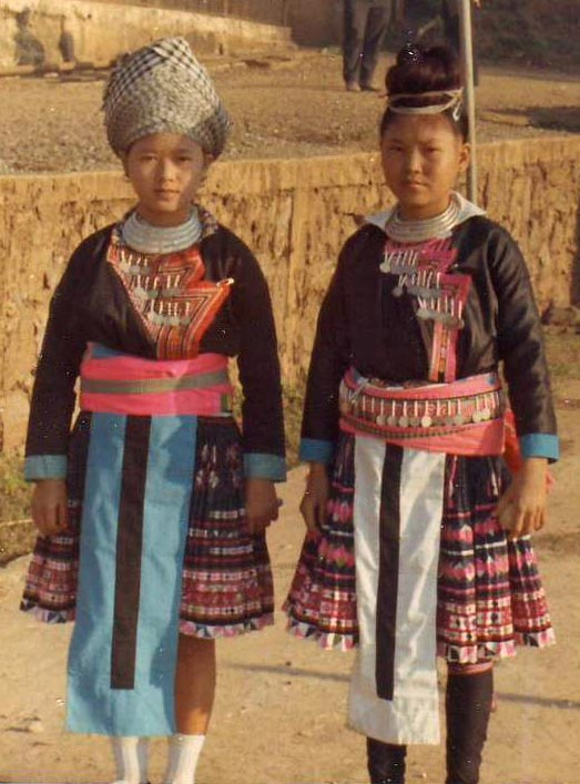 This photo of Hmong girls was taken Dec. 1973 in Long Tieng, Laos.